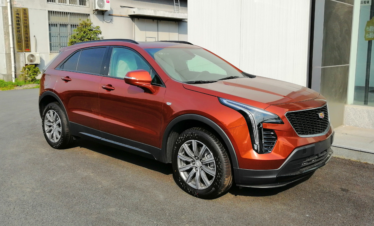 Cadillac XT4 photographed in Shanghai, China.